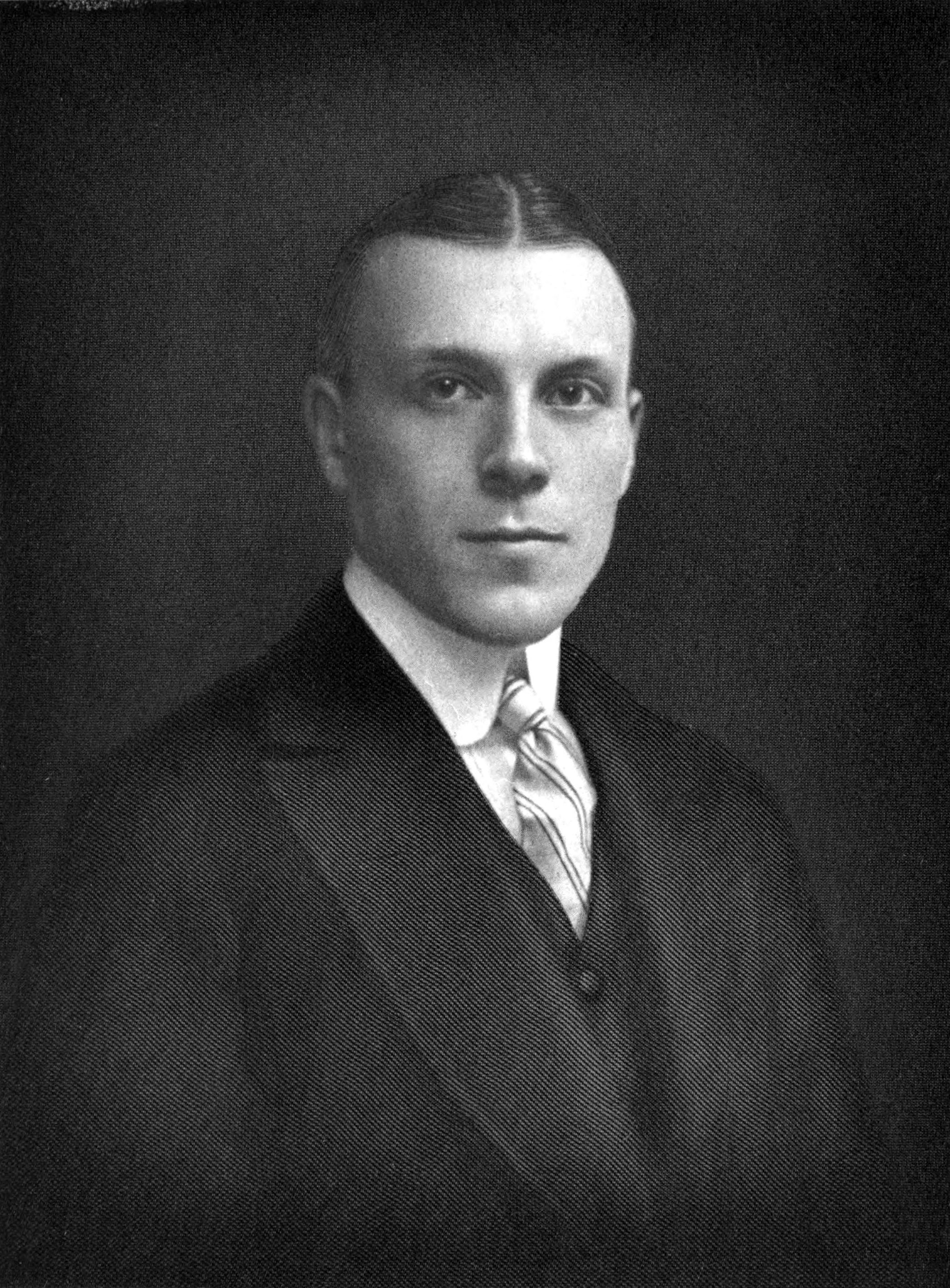 Engraved portrait of Harry Elkins Widener